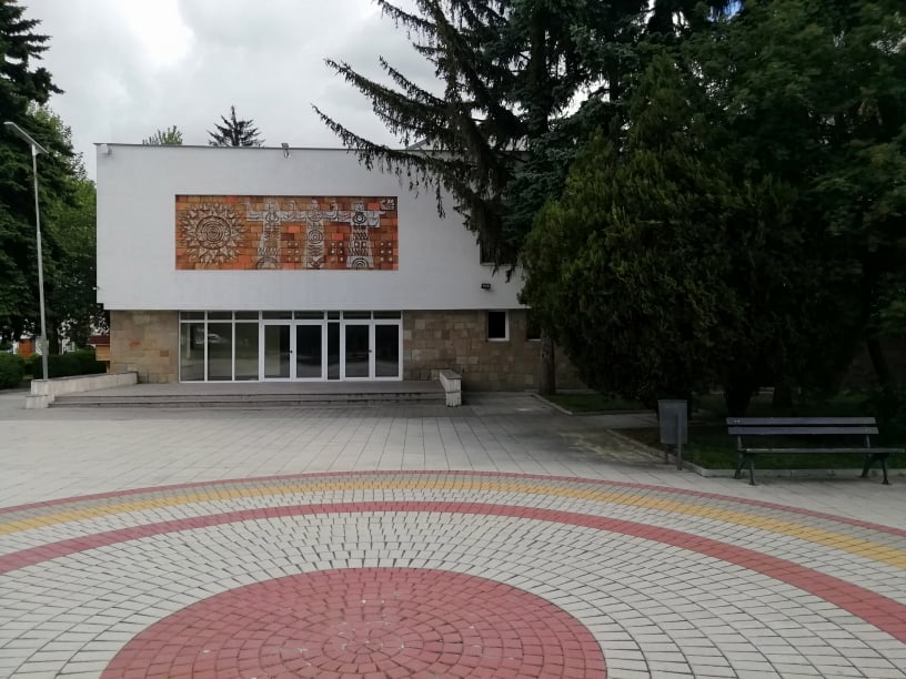 Culturehouse Sun